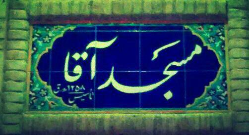 A symbol of Grand Agha Mosque, Iran, Yazd, Abarkouh